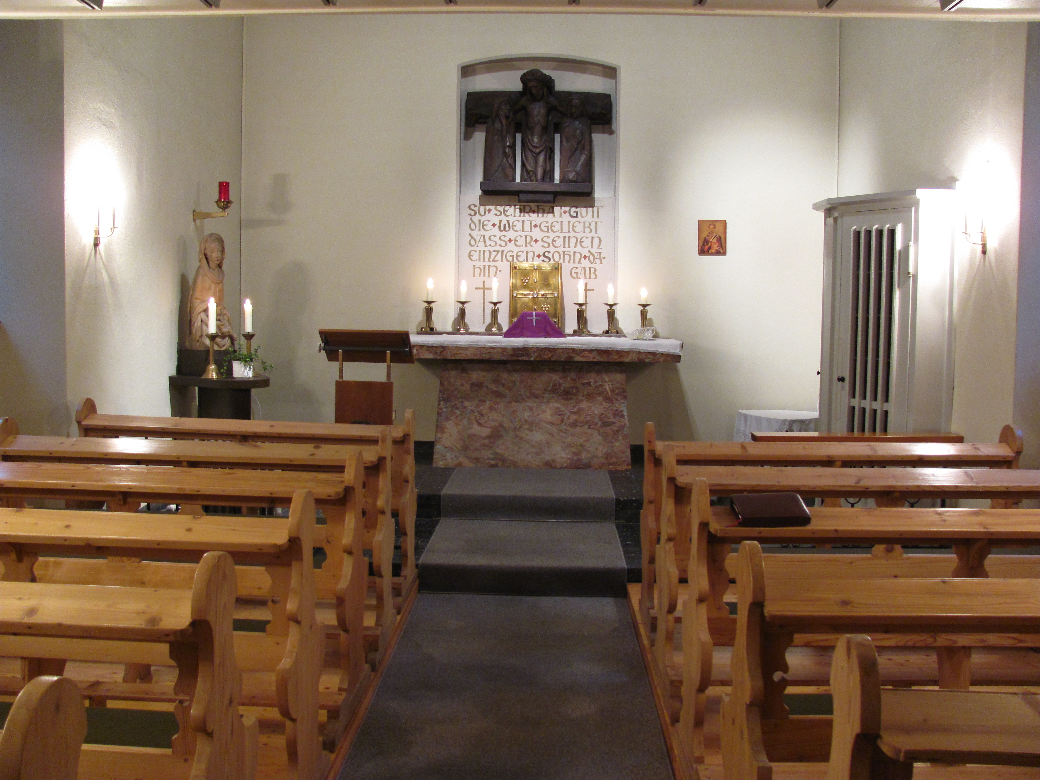 St. Bernward's Chapel, Bad Salzdetfurth-Klein Düngen, Lower Saxony, Germany